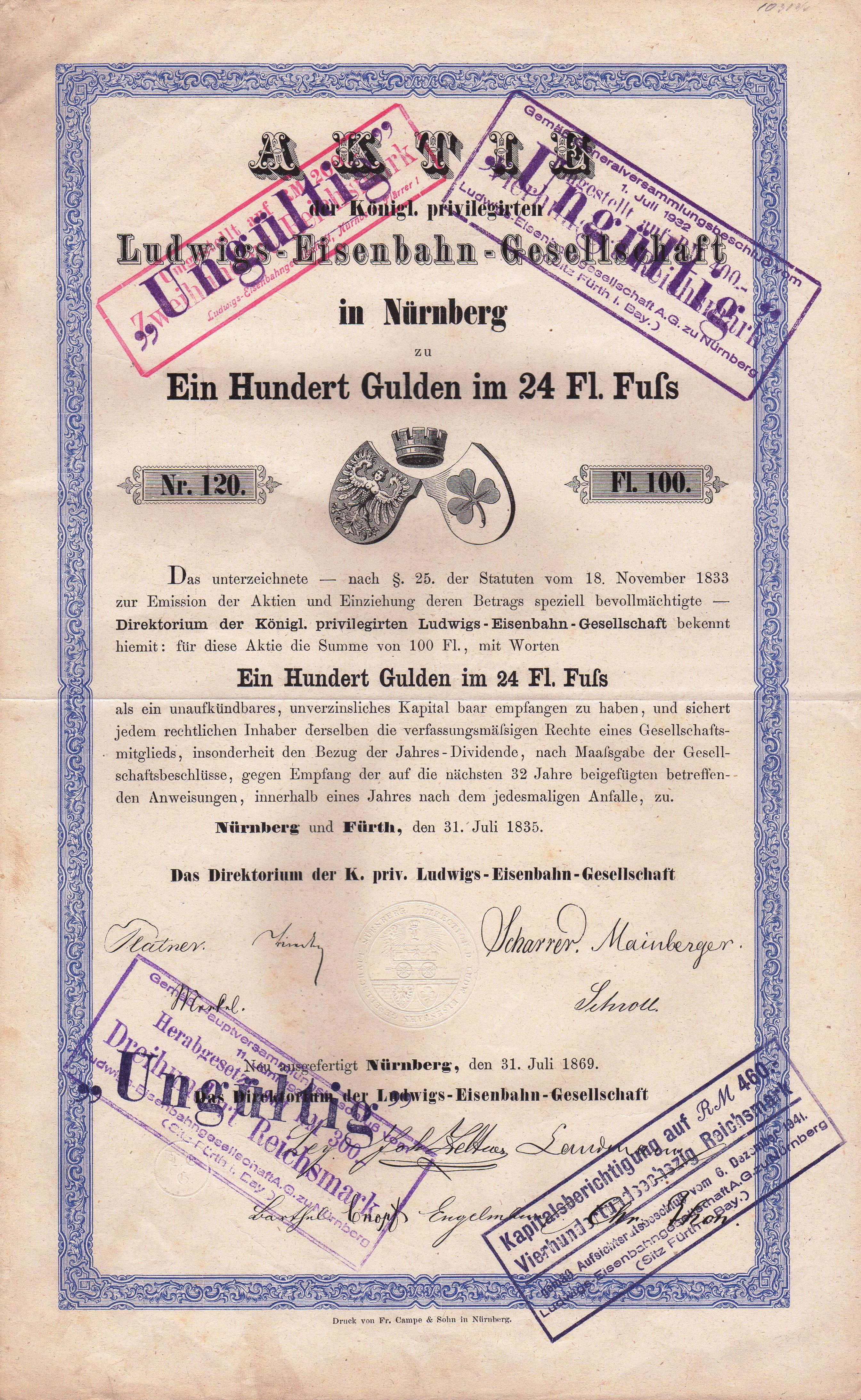 Share of the Ludwigs-Eisenbahn-Gesellschaft, issued 1869